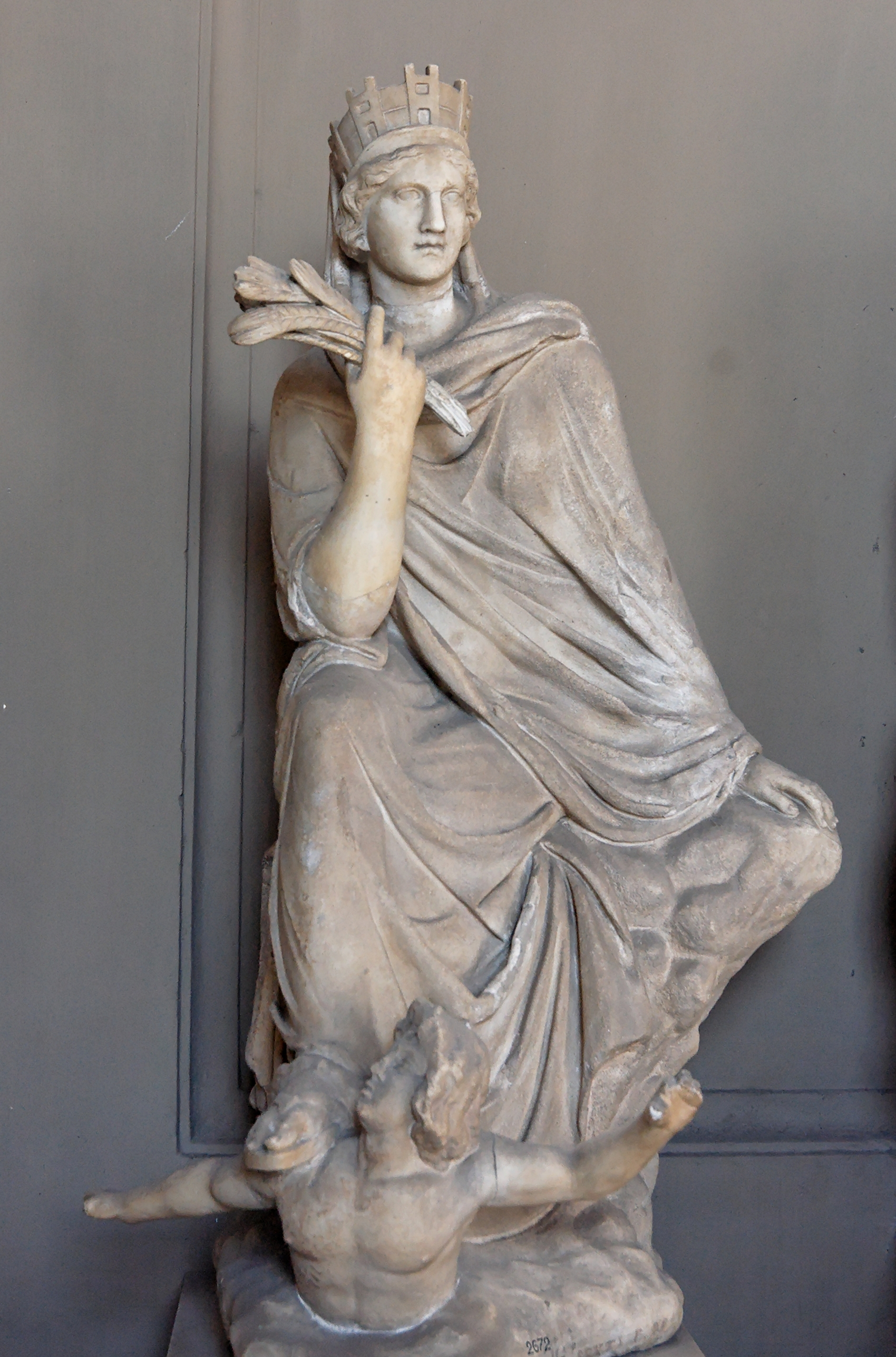 The Tyche (Fortune) of Antioch. Marble, Roman copy after a Greek bronze original by Eutychides of the 3rd century BC.